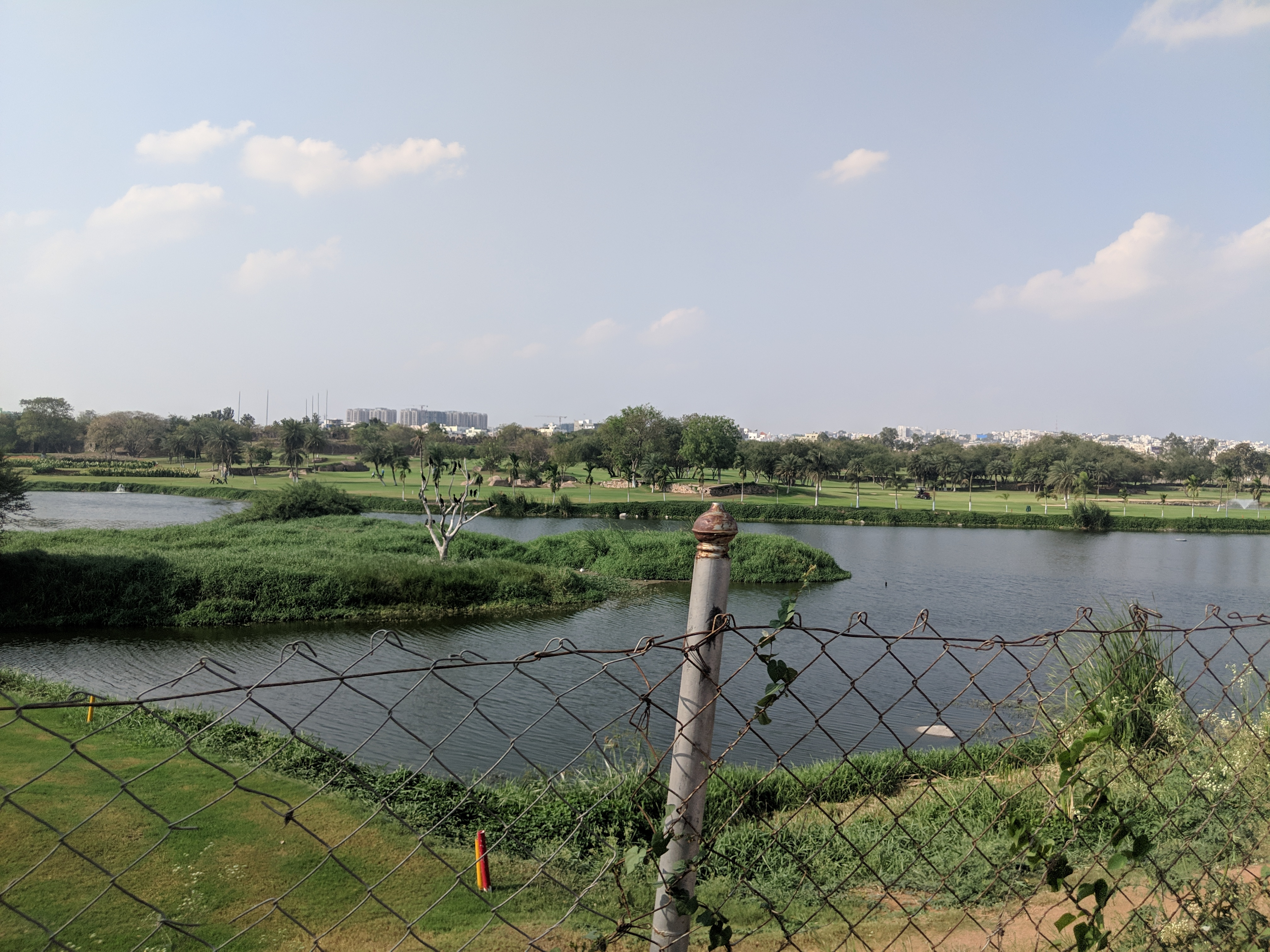 A view from the outside of the Golf Course which is separated from the roads by this wire mesh barricade on which birds sit.